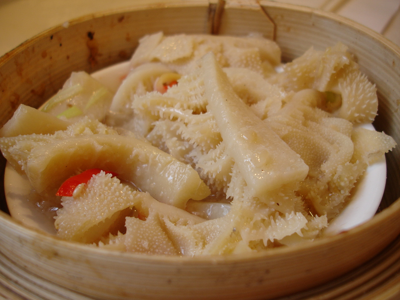 牛百頁, a kind of dim sum made with the omasum of oxen.